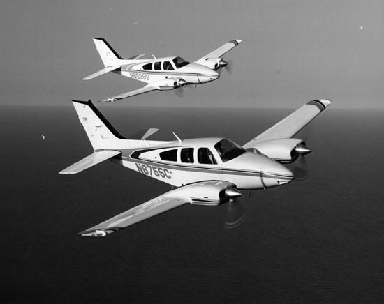 Two Beechcraft 55's in flight.